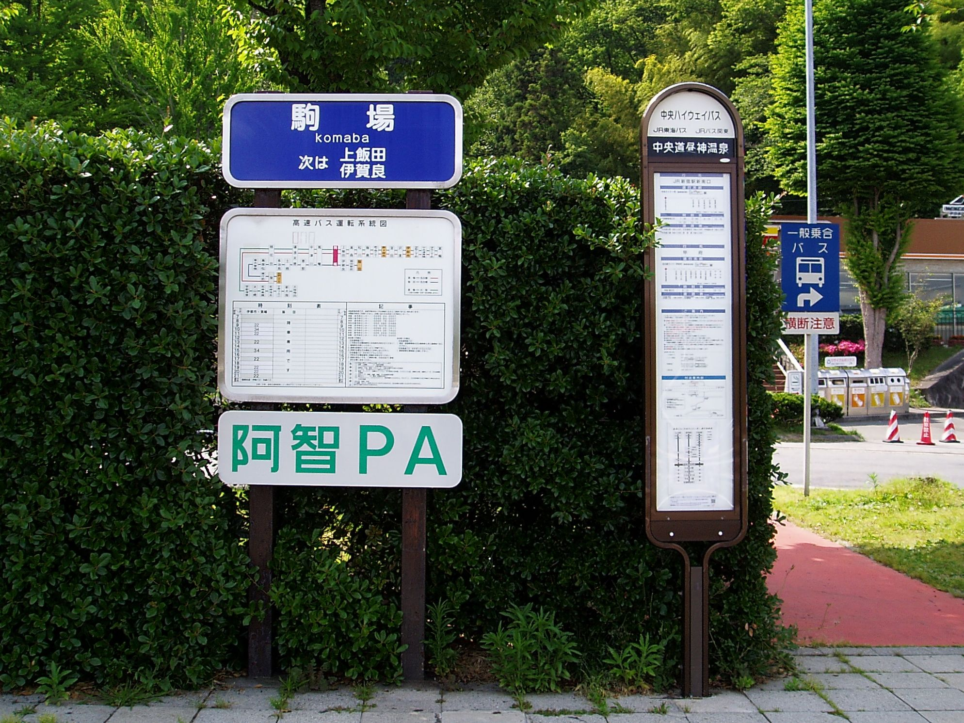 Chuodo Komaba Bus Stop